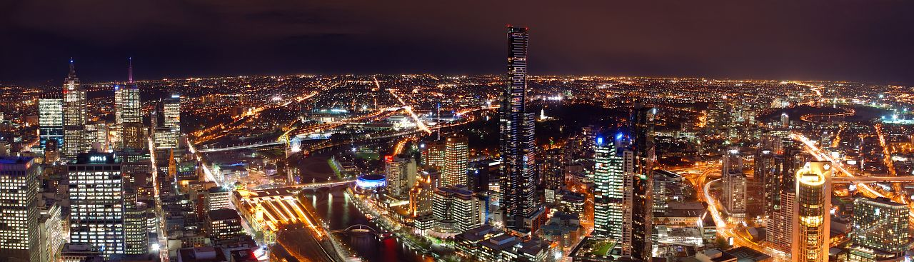 A spectacular panoramic view from the Rialto Towers at night. Downloaded from flickr. Created by mugley